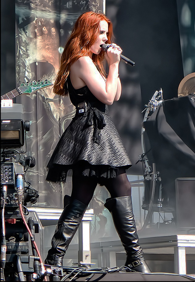 Simone Simons, Epica, 2014